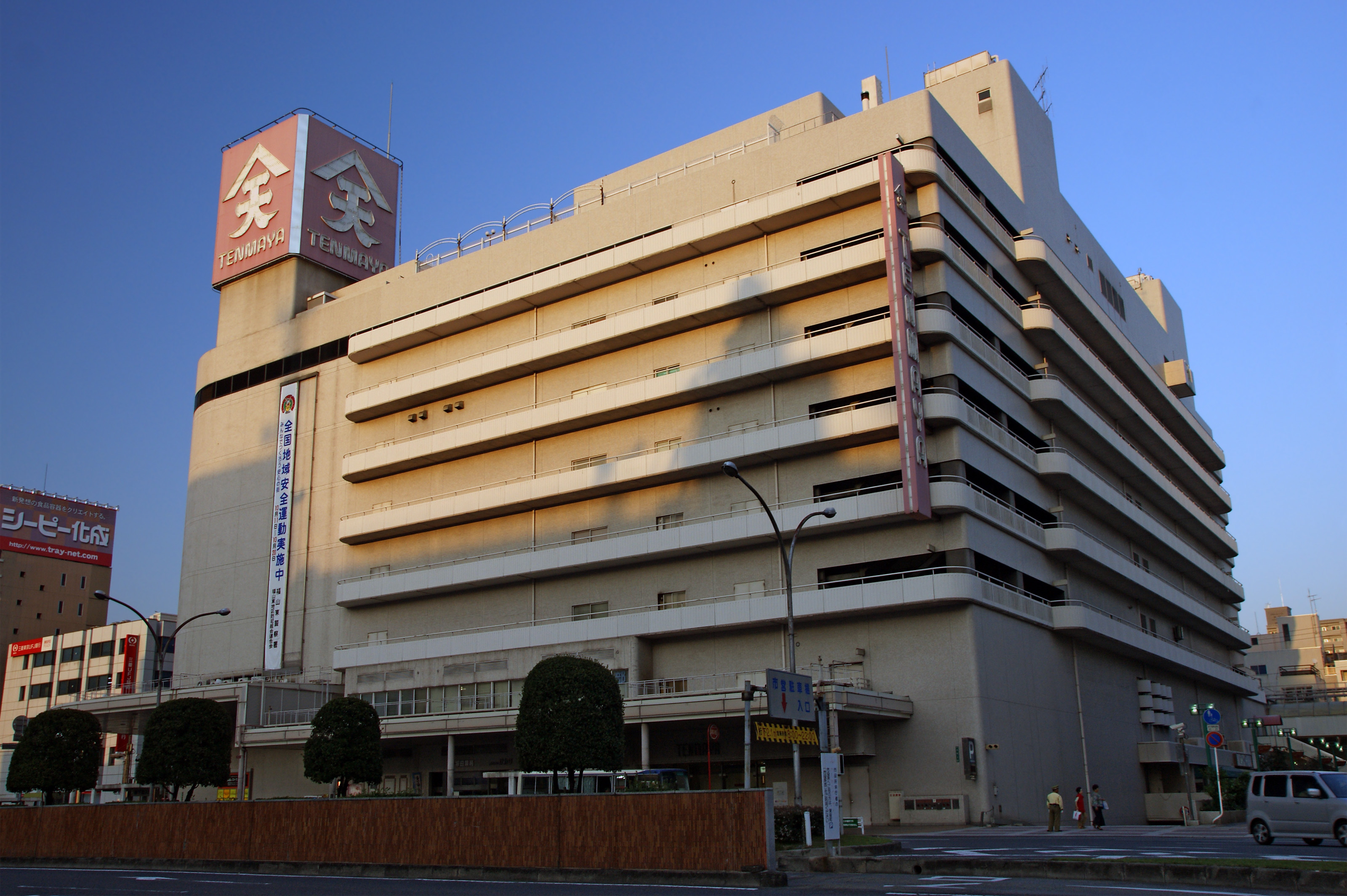 Tenmaya Fukuyama branch, Fukuyama, Hiroshima Prefecture, Japan